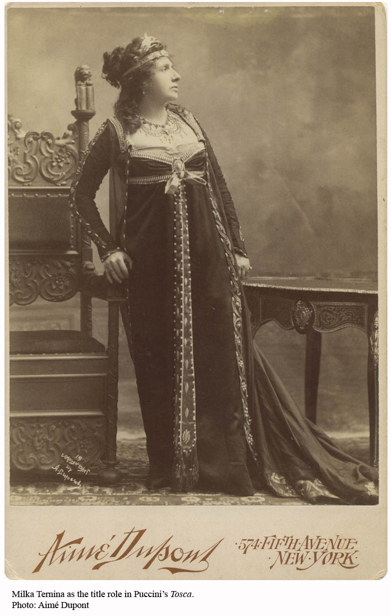 Promotional photo for Milka Ternina as Tosca for the 1901 premiere at the Metropolitan Opera